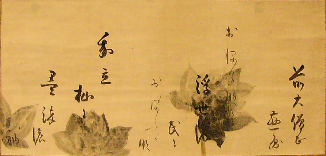 A fragment from HYAKUNIN Isshu (100 Poets Anthology), 32cm height, in Tokyo National Museum,Tokyo, Japan